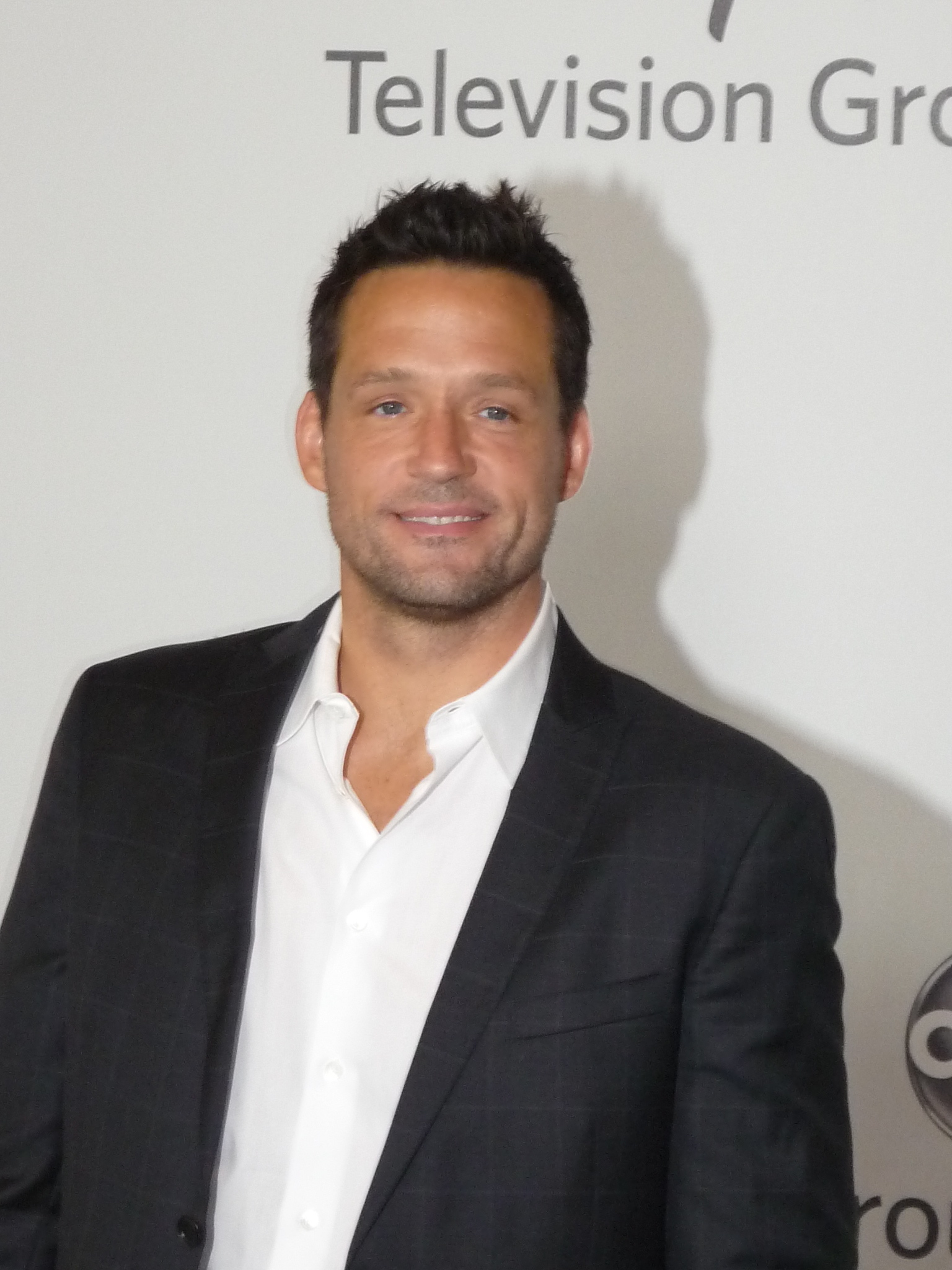 TCA 2010